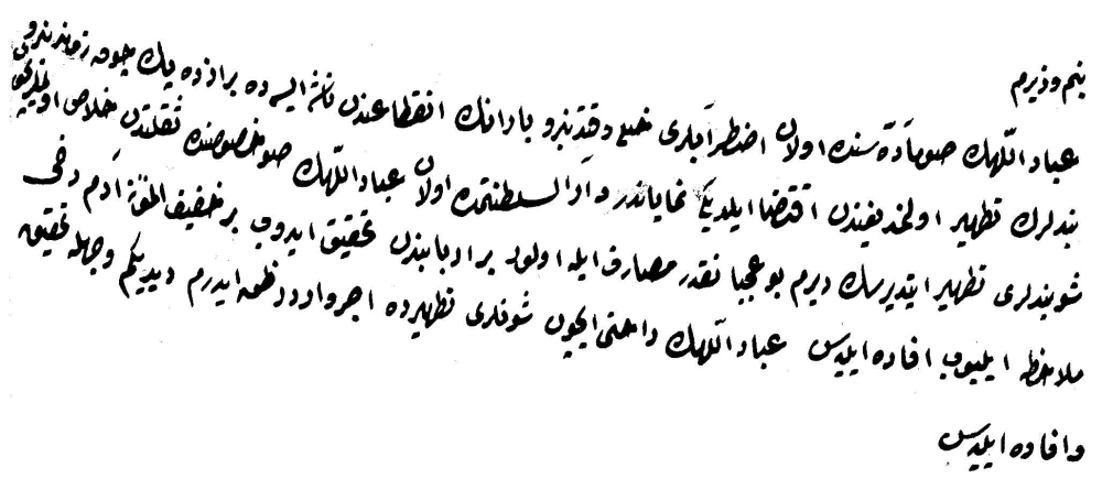 Command of the Ottoman Sultan Mahmud II to his Grand Vizier regarding maintaining dams in Istanbul. "My Vizier, the hardship of people due to the water shortage is due to the drought but also because the dams have not be cleaned. I say that to relieve the subjects of their dıstress in my regal city, you should have these dams cleaned. What would be the cost? Investıgate wıth an expert and tell me. I think there must be a hired man for the relıef of these people. Investigate and inform me regarding this subject.